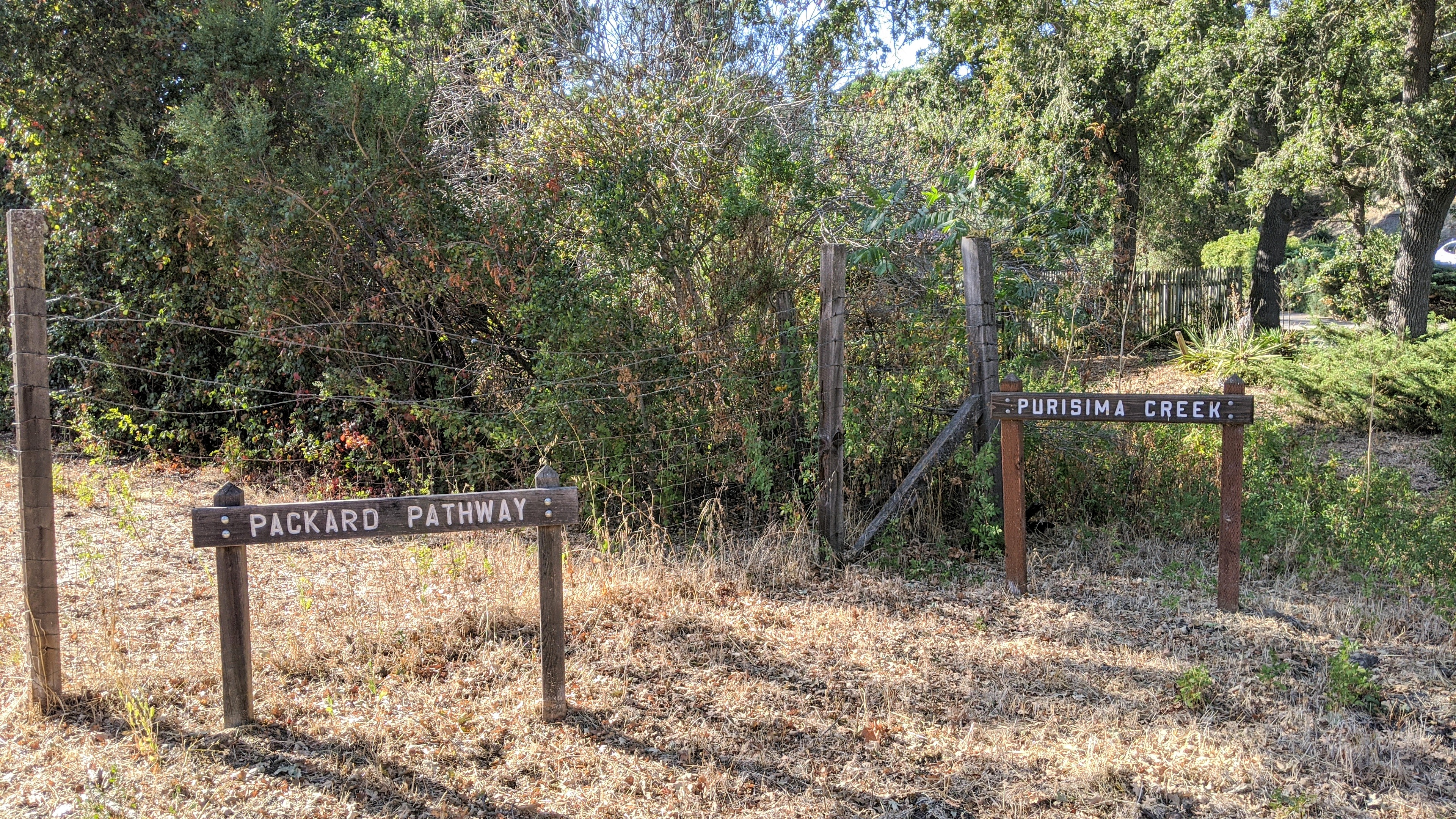 Purisima Creek (Adobe Creek tributary) by the town's Packard Pathway at Elena Road, Los Altos Hills